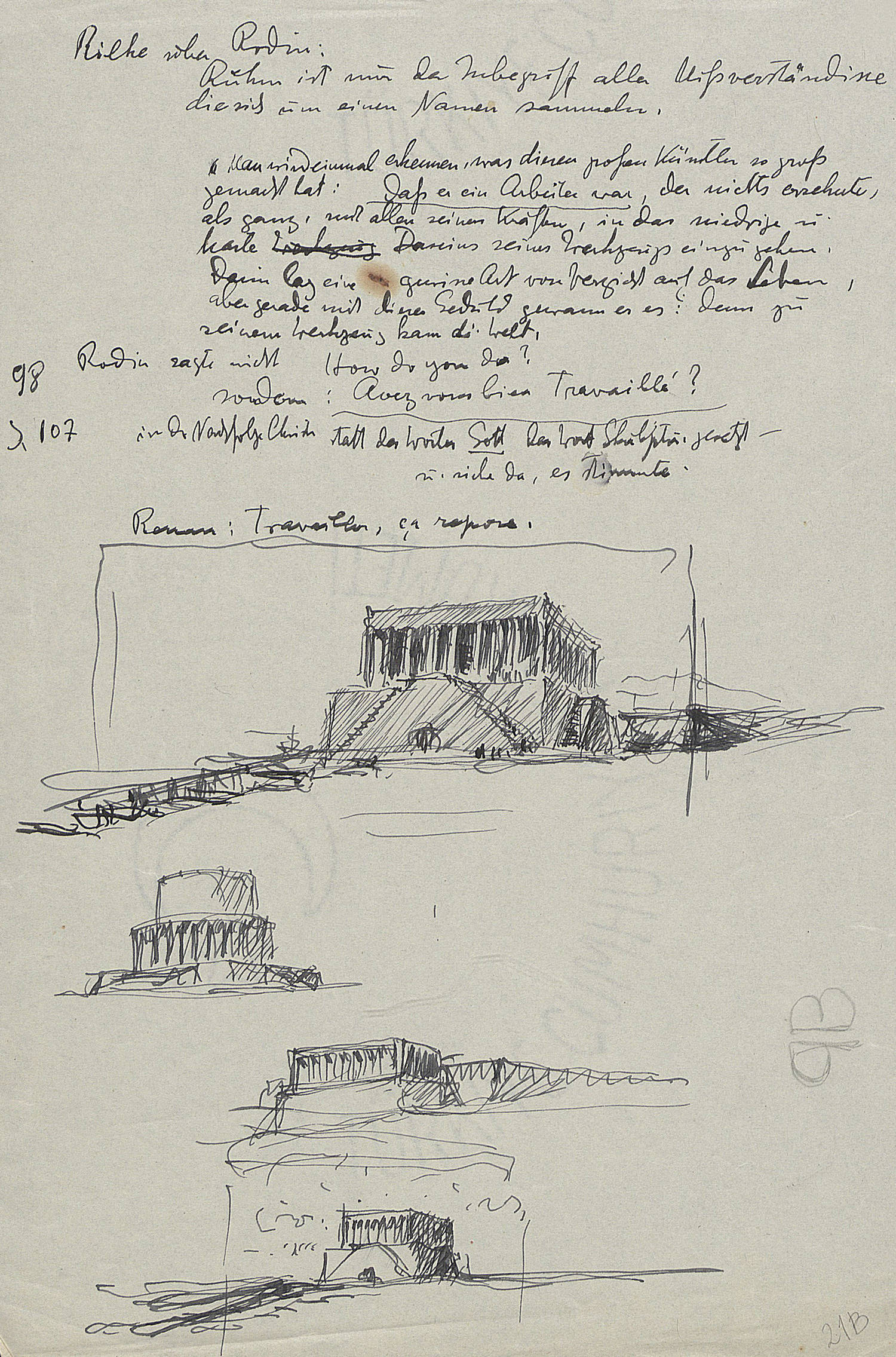 Sketches of Anıtkabir by Paul Bonatz, judge of the international competition for Anıtkabir, sourced from his personal notes and an article on the winning project that was published in "Ulus Newspaper" on November 10, 1944 SALT Research Söylemezoğlu Archive Anıtkabir için açılan uluslararası yarışmada jüri üyeliği yapan Paul Bonatz'ın kişisel notları arasından proje için yapılmış eskizler ve birinci olan projeyle ilgili 10 Kasım 1944 tarihli "Ulus Gazetesi"nde yayımlanan metin SALT Araştırma, Söylemezoğlu Arşivi